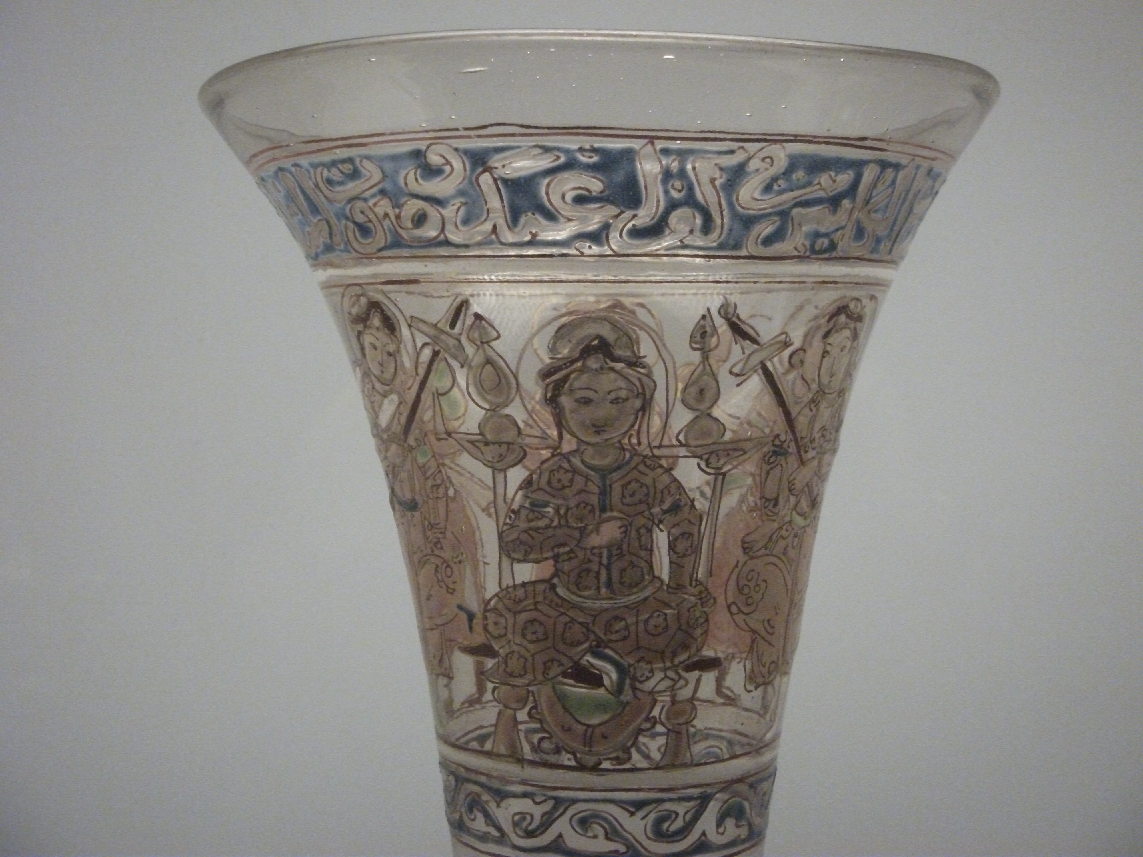 Waddesdon bequest, British Museum